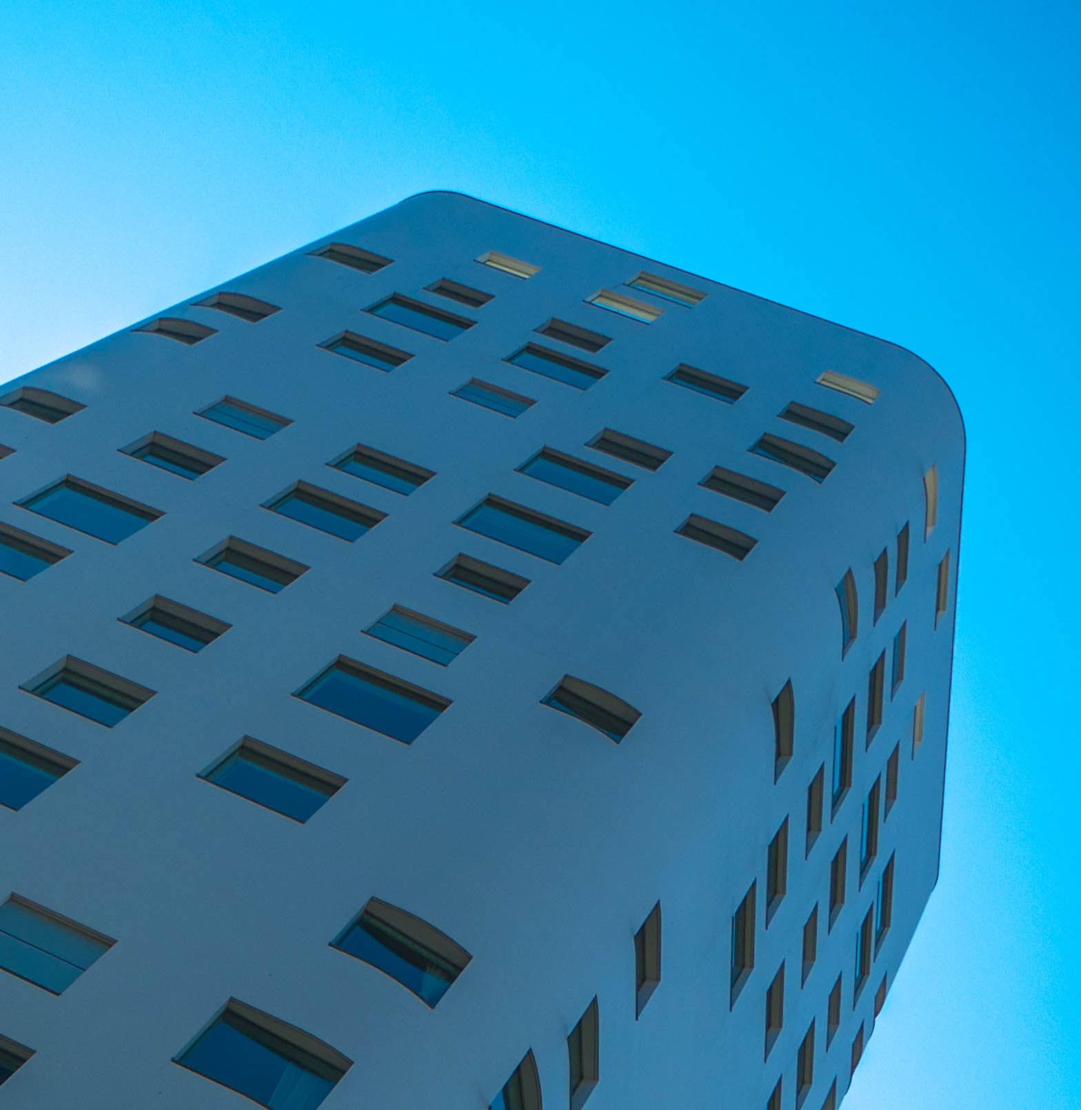 SIA Aoyama Building by Jun Aoki (Japanese Architecture)